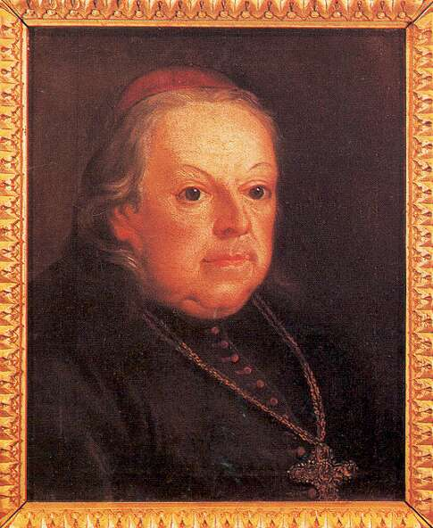 Count Károly Imre Flórián Antal József Ignác Xavér Esterházy de Galánta (1725–1799), bishop of Eger